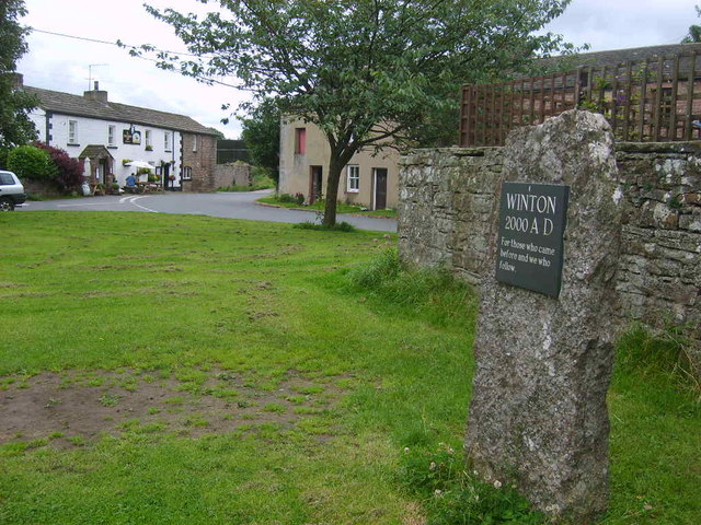 Millennium monument Upright monument on the village green with pub in the distance.